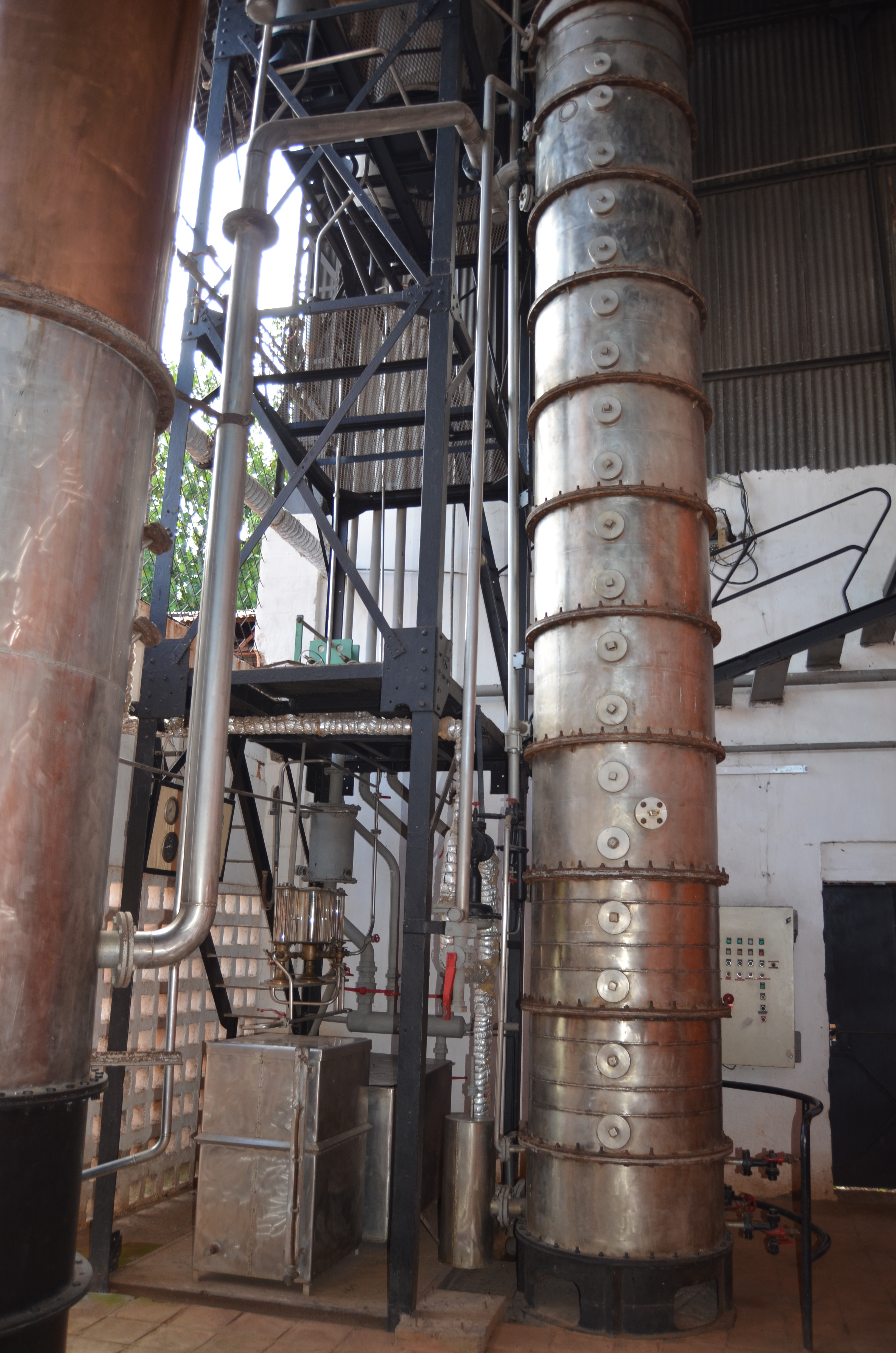 Rum distillery in Nosy Be.